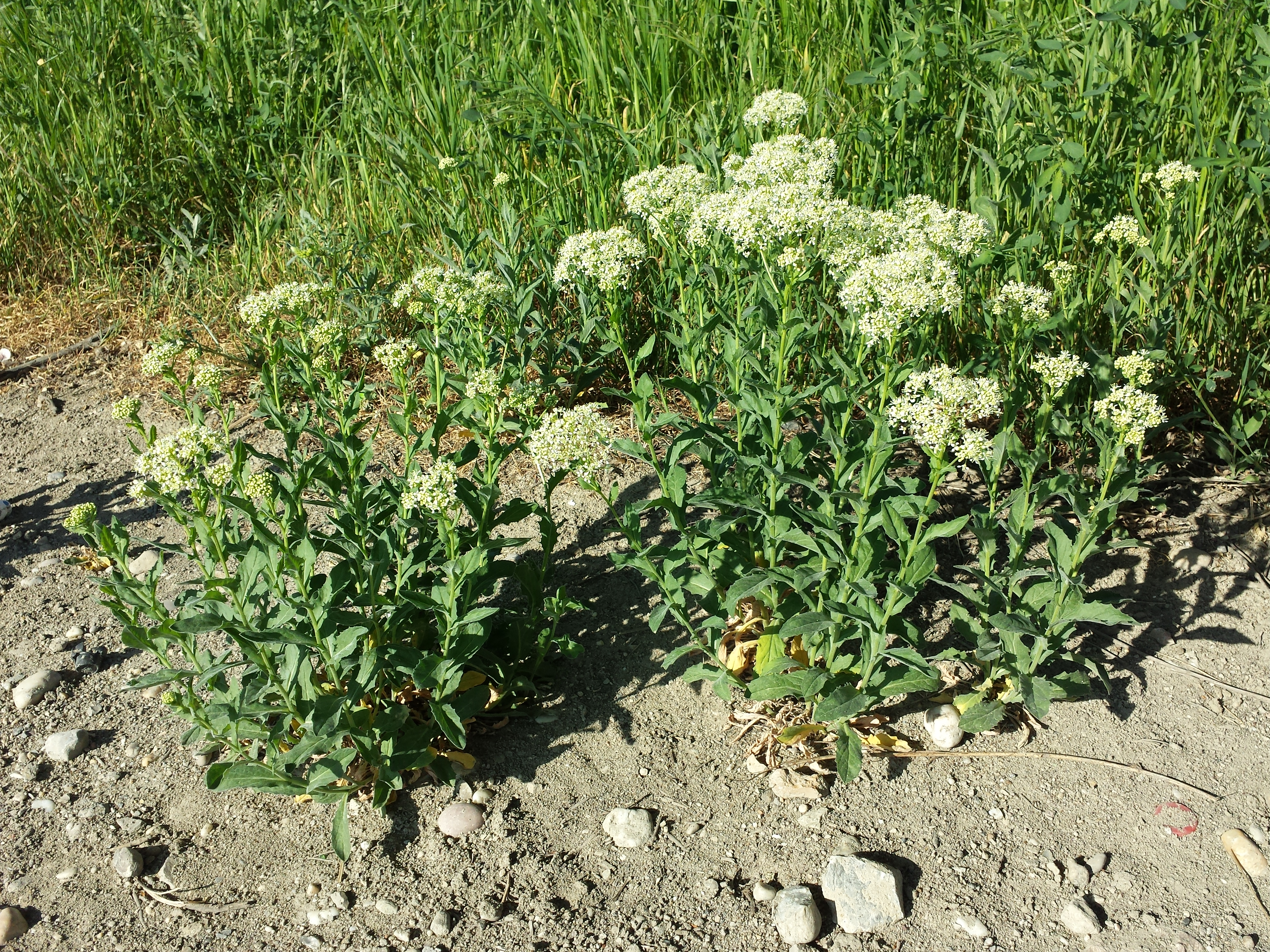 Habitus Taxonym: Lepidium draba (subsp. draba) ss Fischer et al. EfÖLS 2008 ISBN 978-3-85474-187-9 Location: Neue Donau, Vienna-Floridsdorf - ca. 160 m a.s.l. Habitat: ruderal area under a bridge